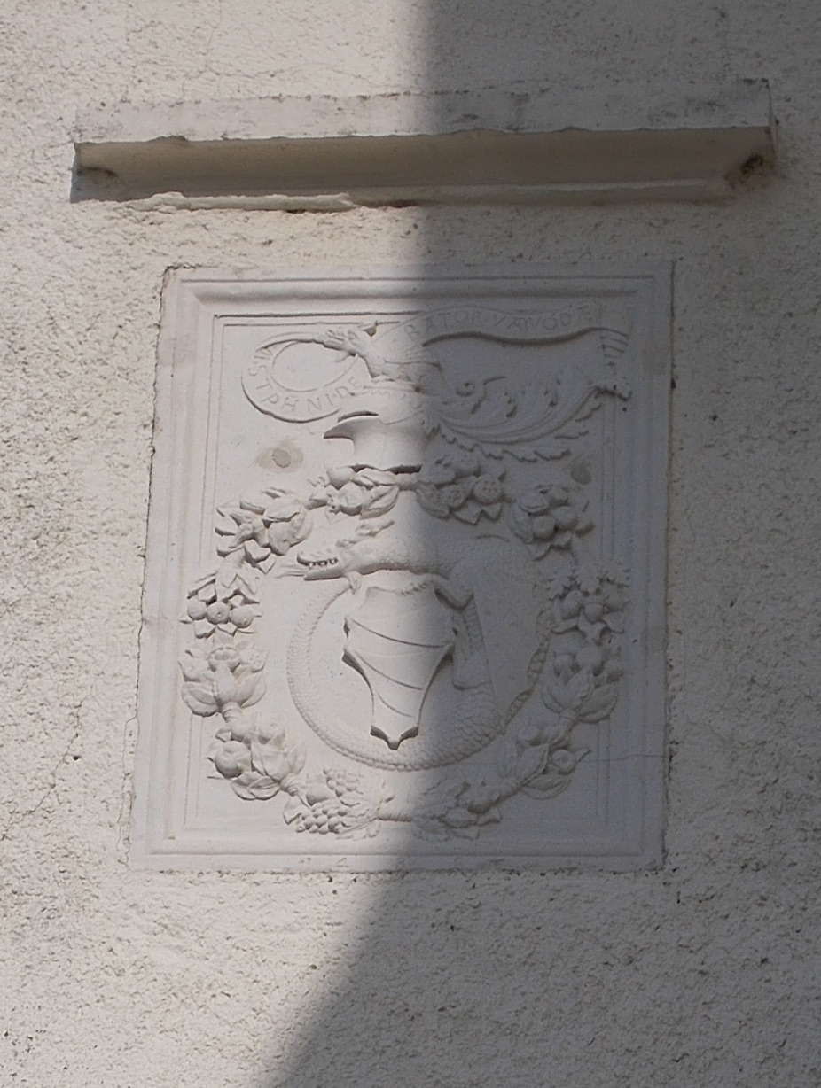 Reformed church. Late Gothic, built: 1488-1511. - Báthori Street, Nyírbátor, Szabolcs-Szatmár-Bereg County, Hungary.